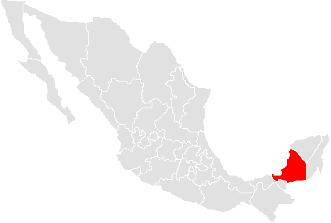 A map of the mexican state of campeche made by me